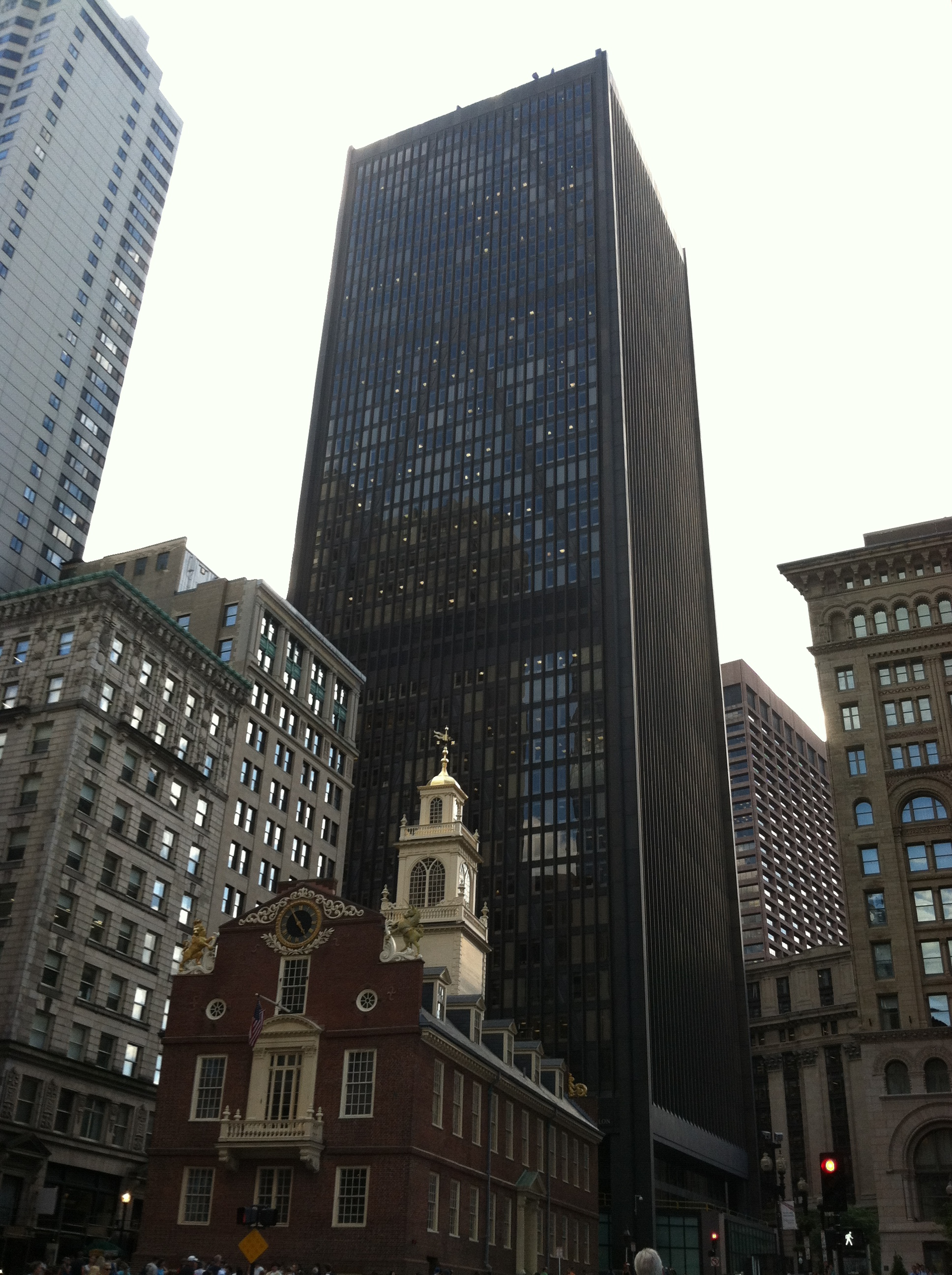 View of One Boston Place, a skyscraper in Boston, with the Old State House in the foreground.